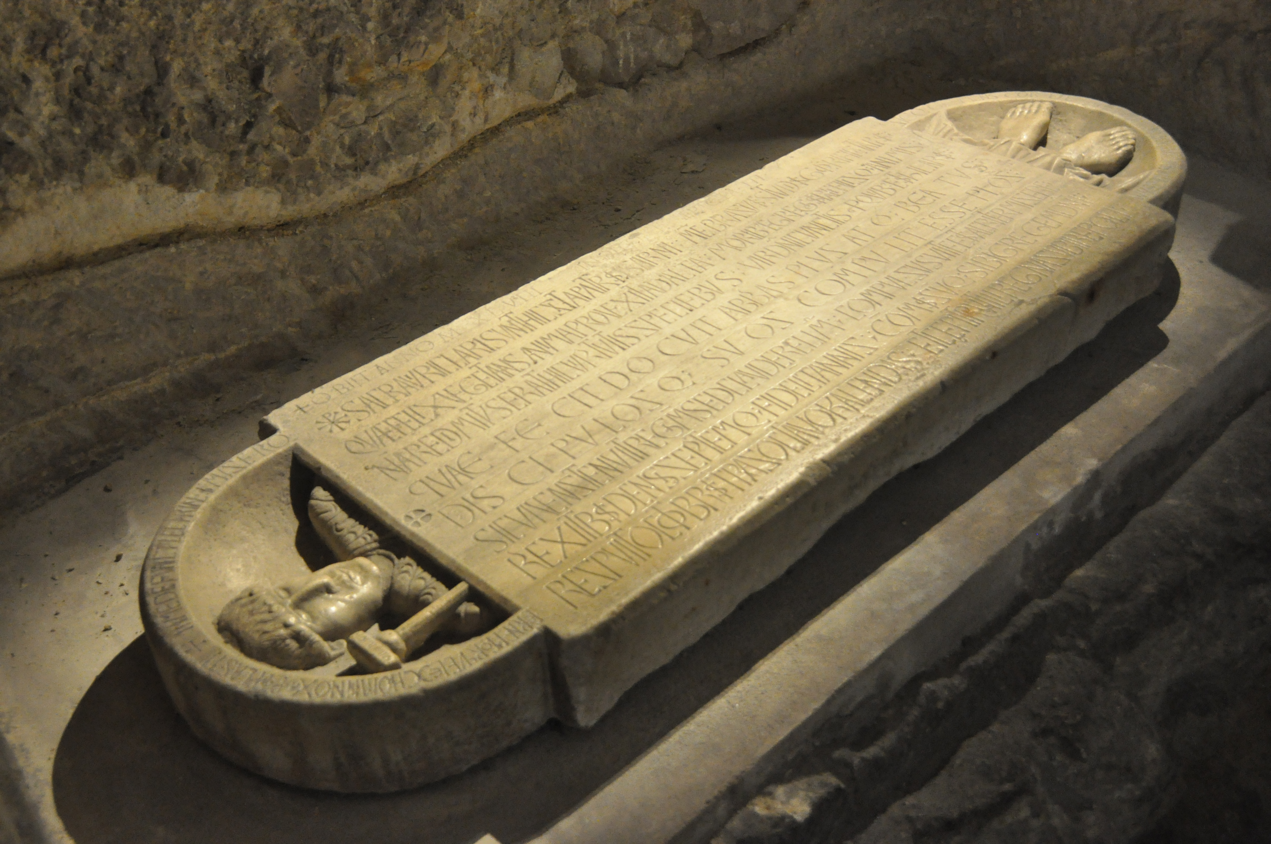 Tombstone of abbot Isarnus (11th C). Crypt of the Abbey of St Victor, Marseille